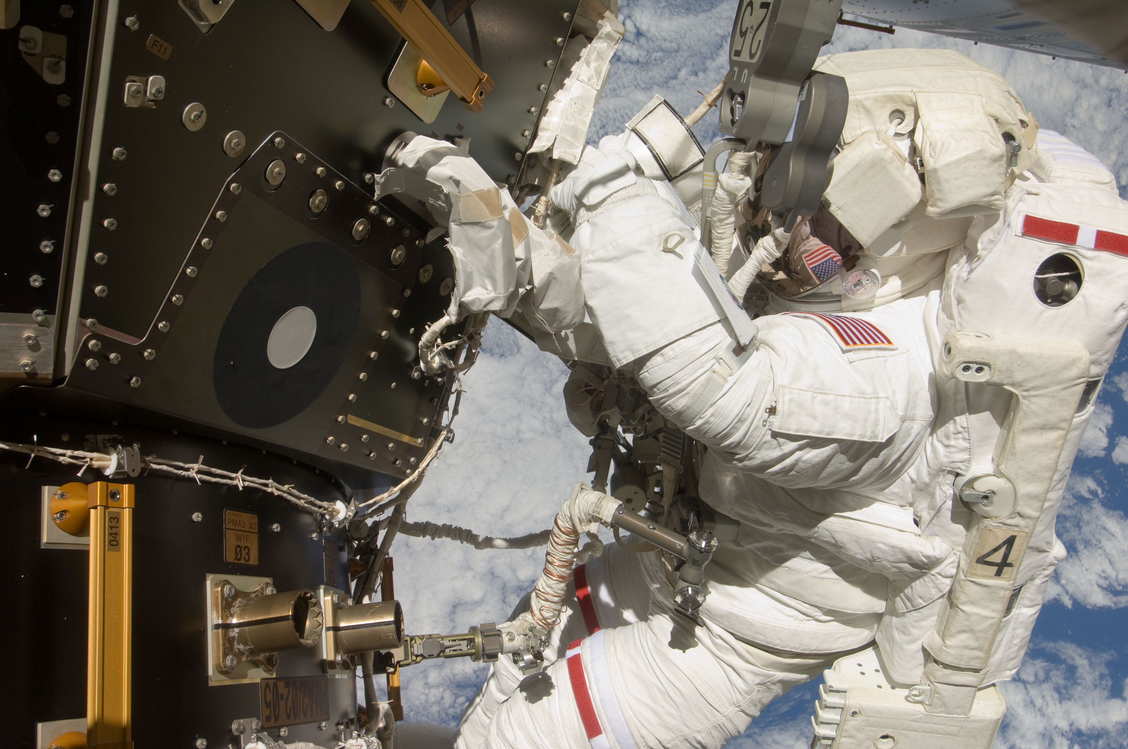 Astronaut Tom Marshburn performs his first space walk and the STS-127 crew's second of the five scheduled to continue work on the International Space Station. Astronauts Marshburn and Dave Wolf (out of frame) successfully transferred a spare KU-band antenna to long-term storage on the space station, along with a backup coolant system pump module and a spare drive motor for the station's robot arm transporter.